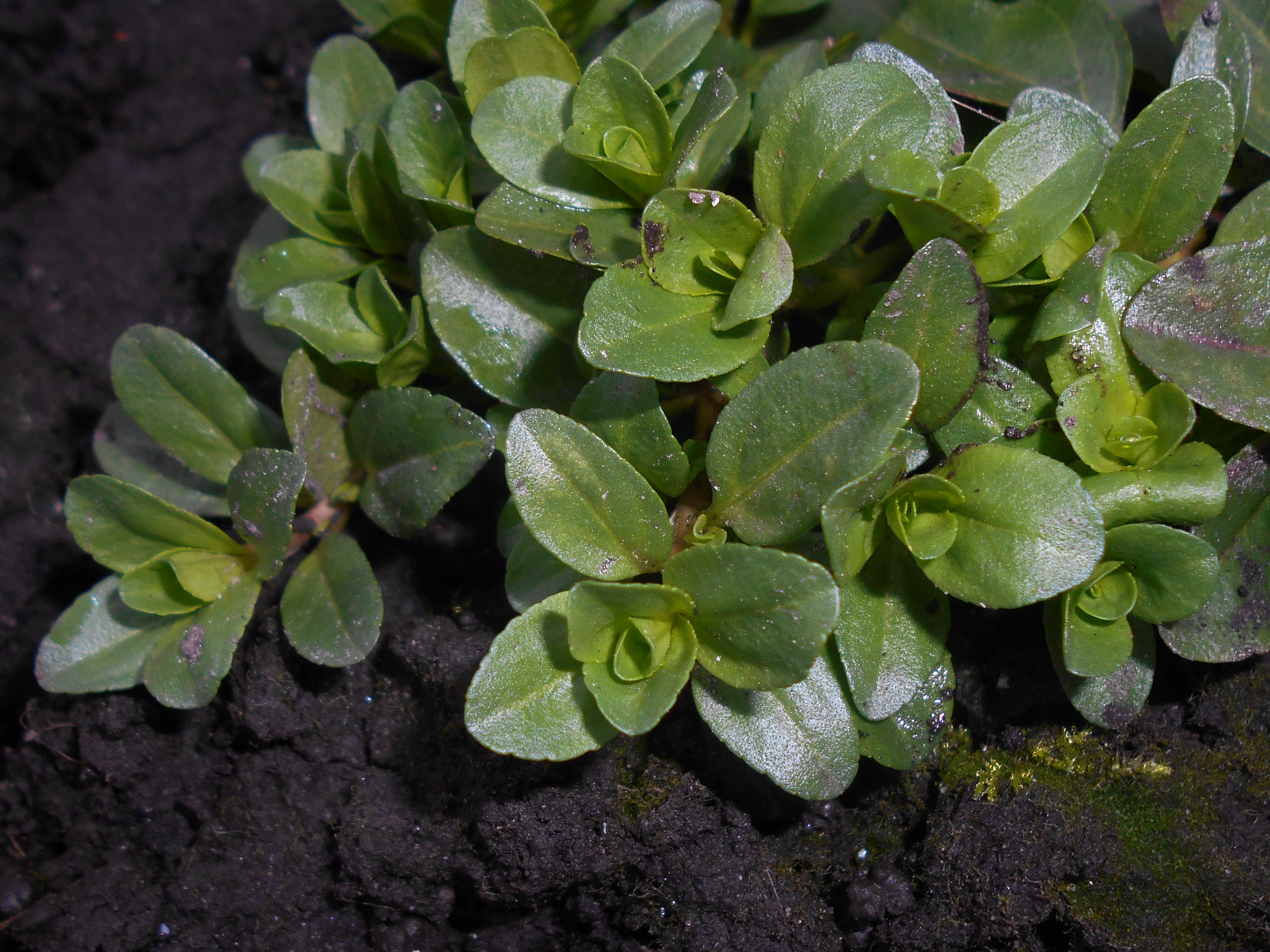 Veronica serpyllifolia, allotment garden in Lublin, Poland.